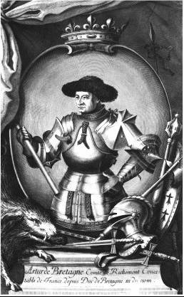 Arthur III of Brittany